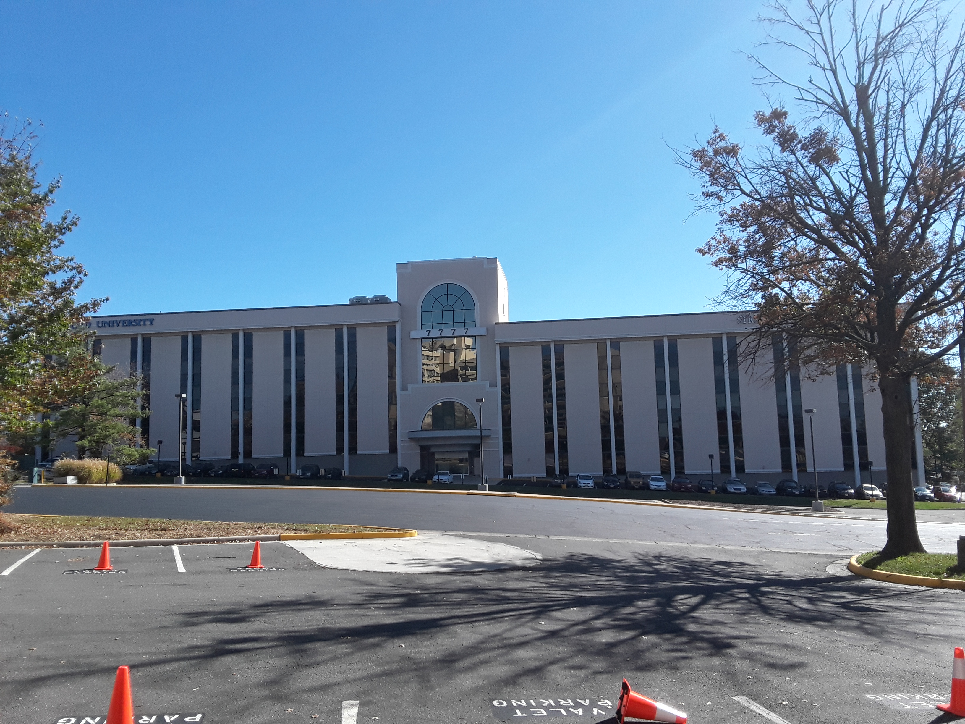 Stratford University in Tyson's Corner